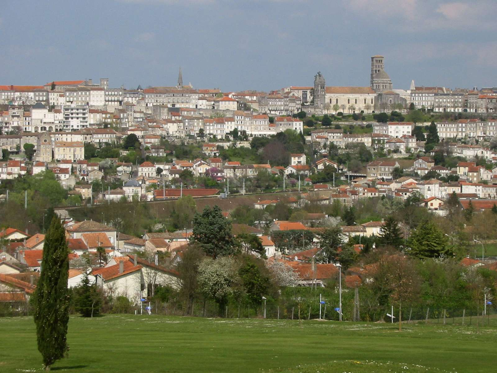 View of Angoulême and the cathedral from the golf course of l'Hirondelle